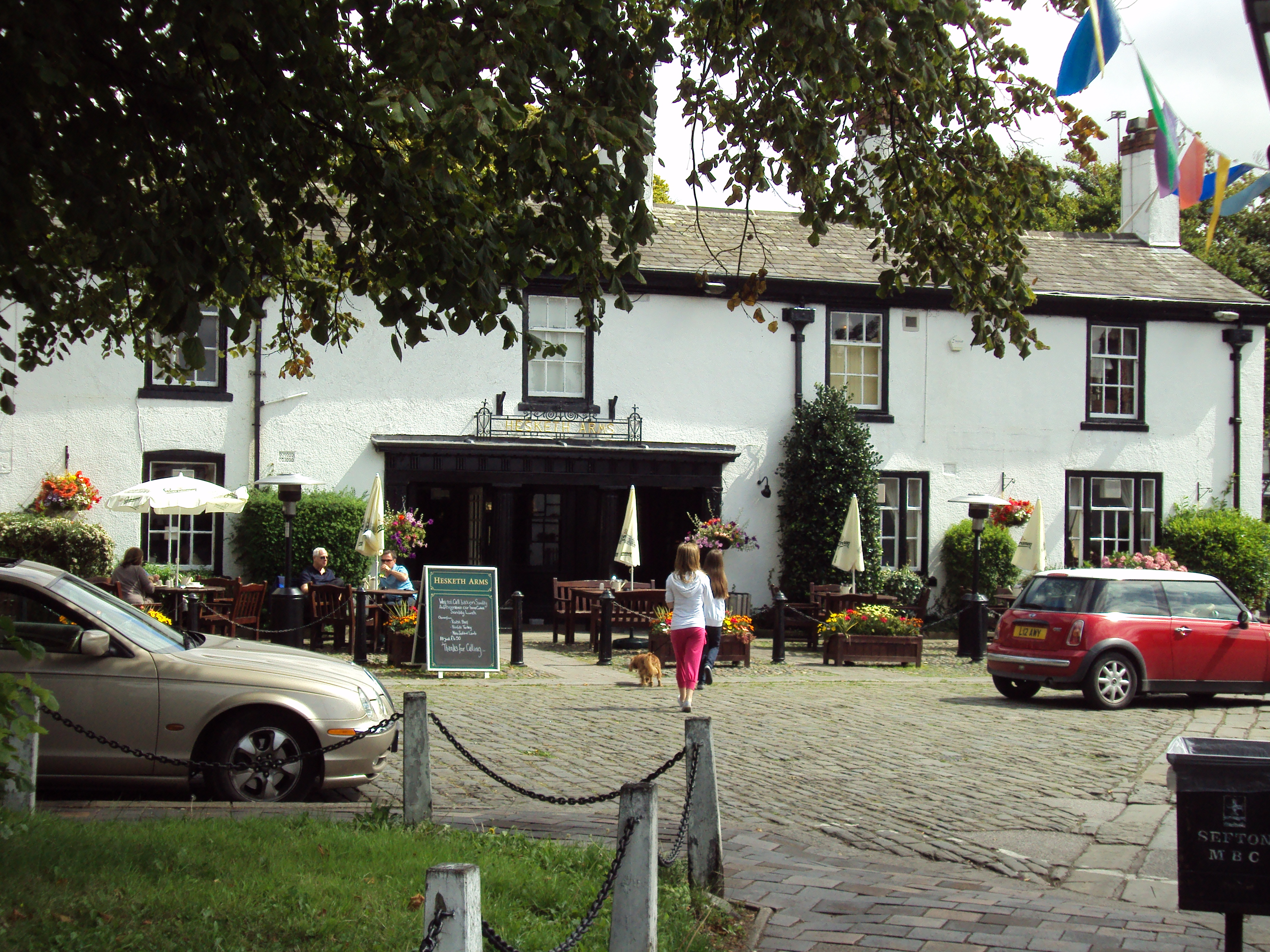 Hesketh Arms Pub, Botanic Road, Churchtown, Southport, Merseyside, England.